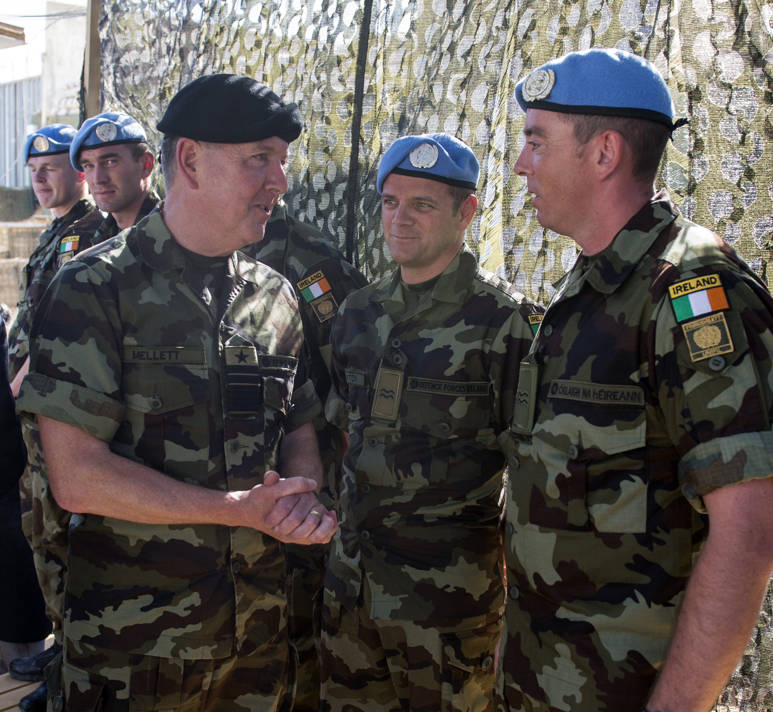 Vice Admiral Mark Mellett (Naval Service) Chief of Staff of the Defence Forces of Ireland, visits Irish troops in Lebanon deployed under the United Nations Interim Force in Lebanon (UNIFIL)